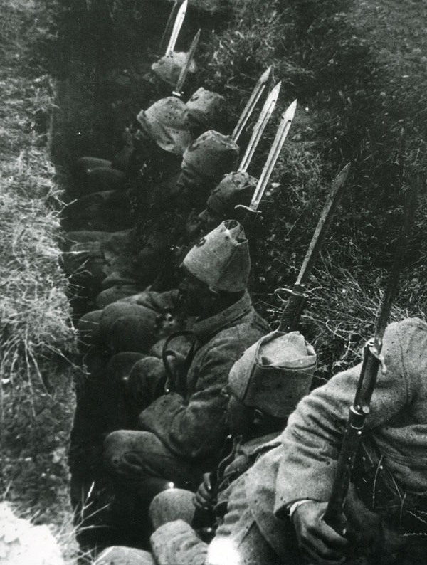 Turkish soldiers in trench, who were waiting for the order to attack with fixing the bayonet on their rifles during the artillery preparatory fires (1922, Turkish War of Independence)